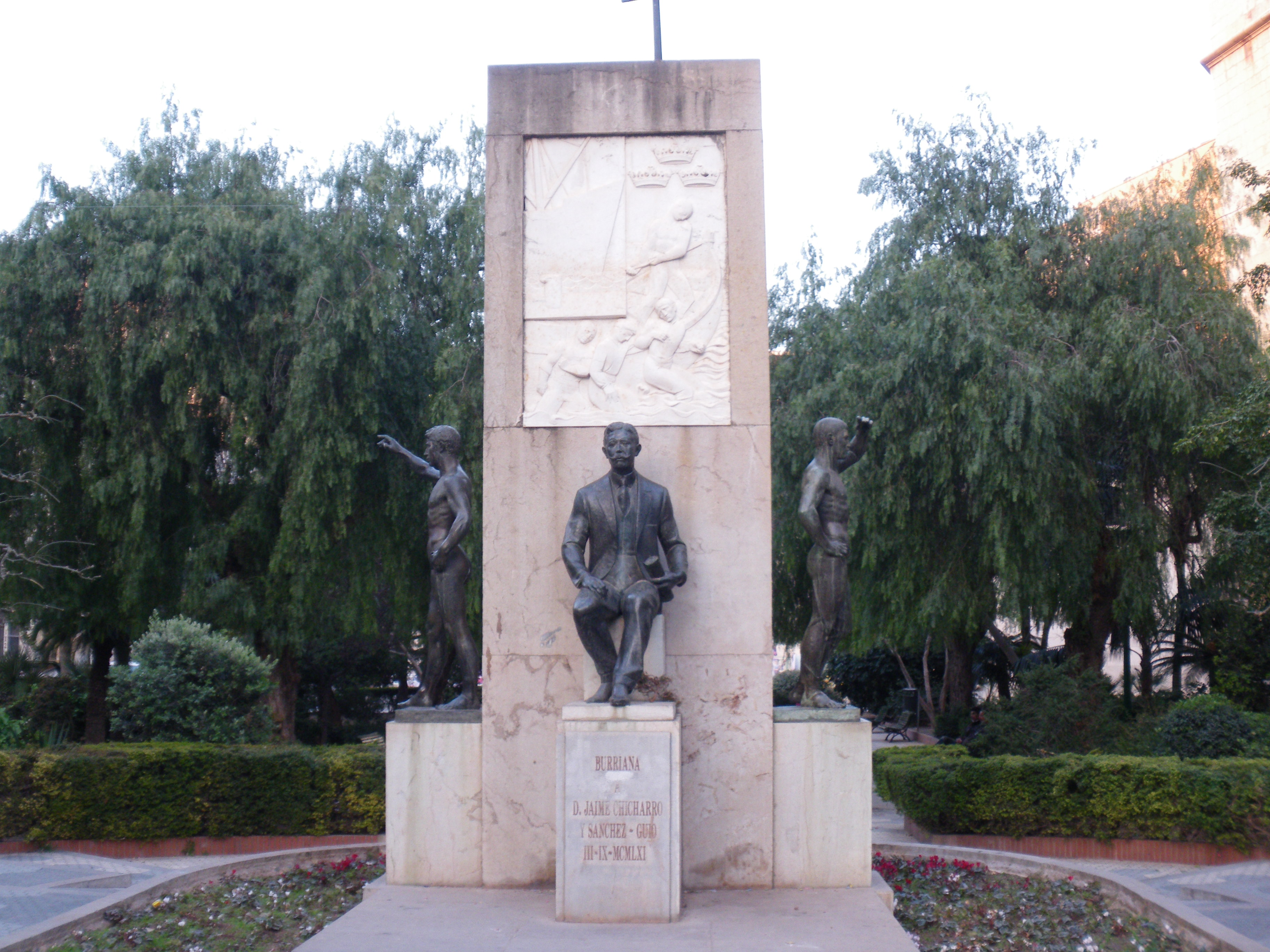 Jaime Chicharro-Sanchez Guió Borriana